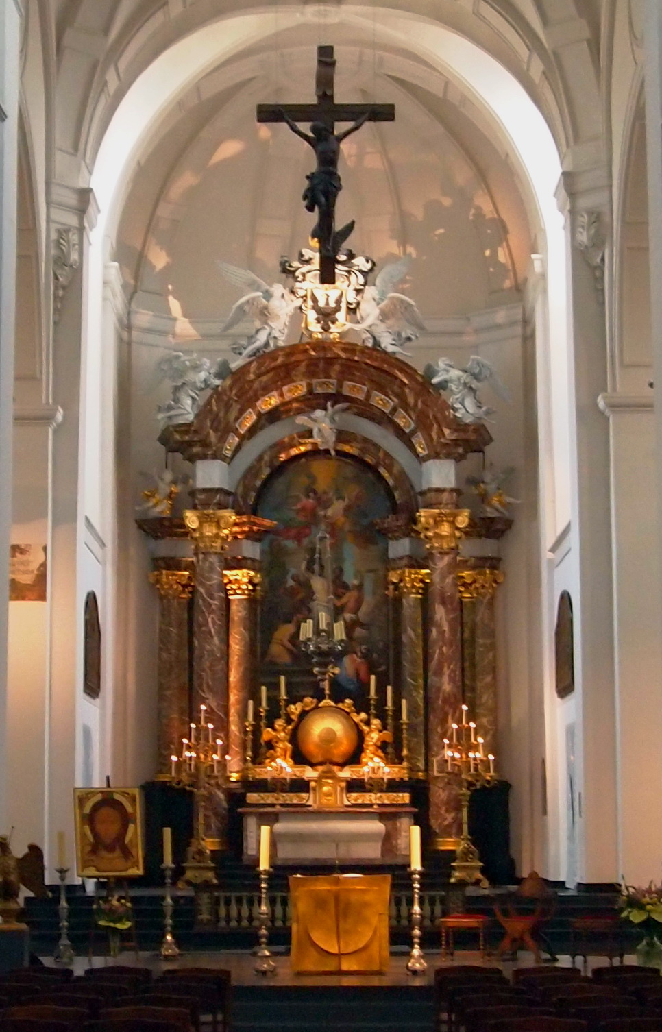 Main altar of Saint Bartholemew's Church (Collégiale Saint-Barthélemy) in Liège, Belgium, by the Baroque sculptor Cornélis Vander Veeken (1706).